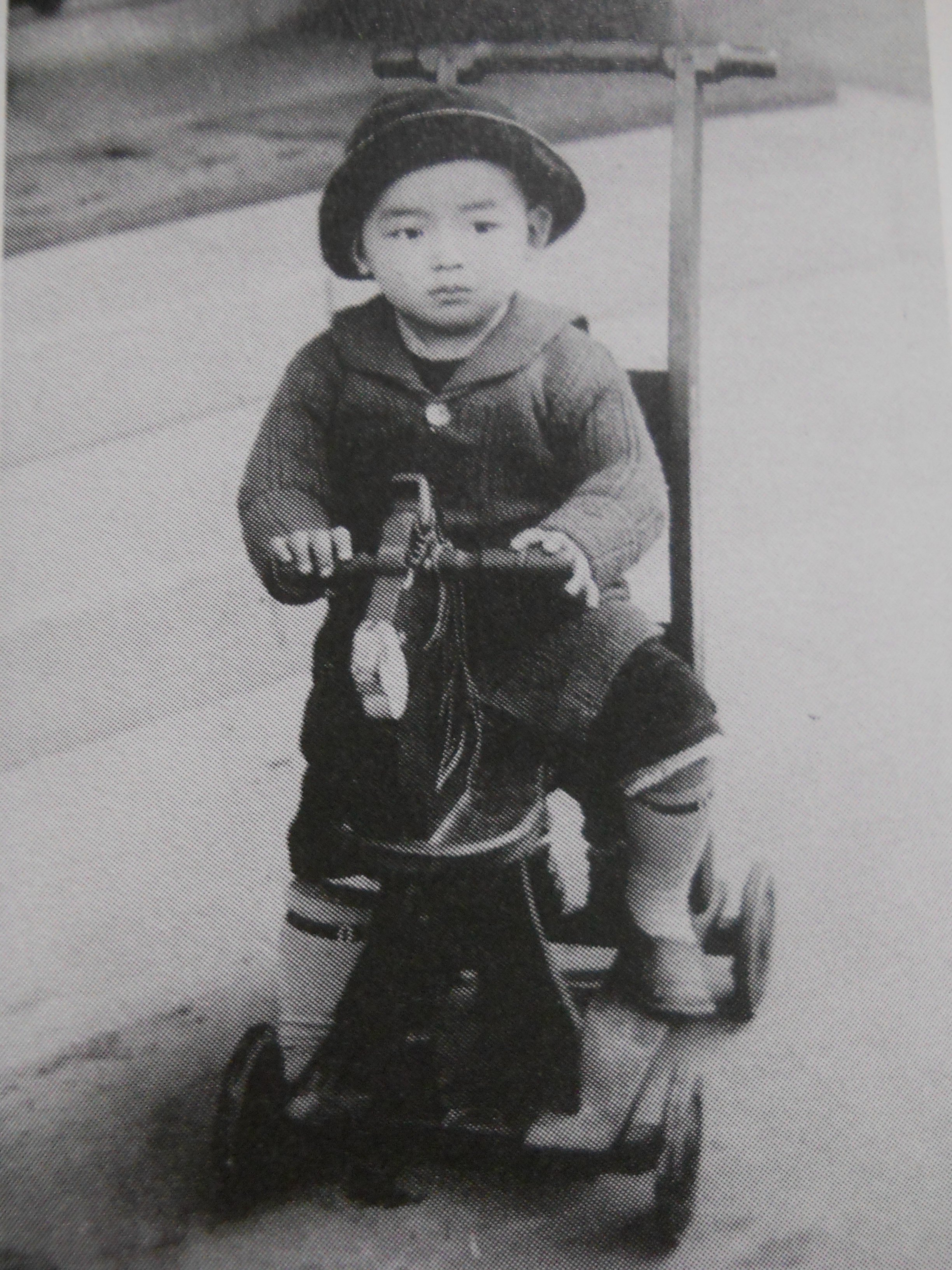 Ｍｉｚｕｋｉ Ｓｈｉｇｅｒｕ